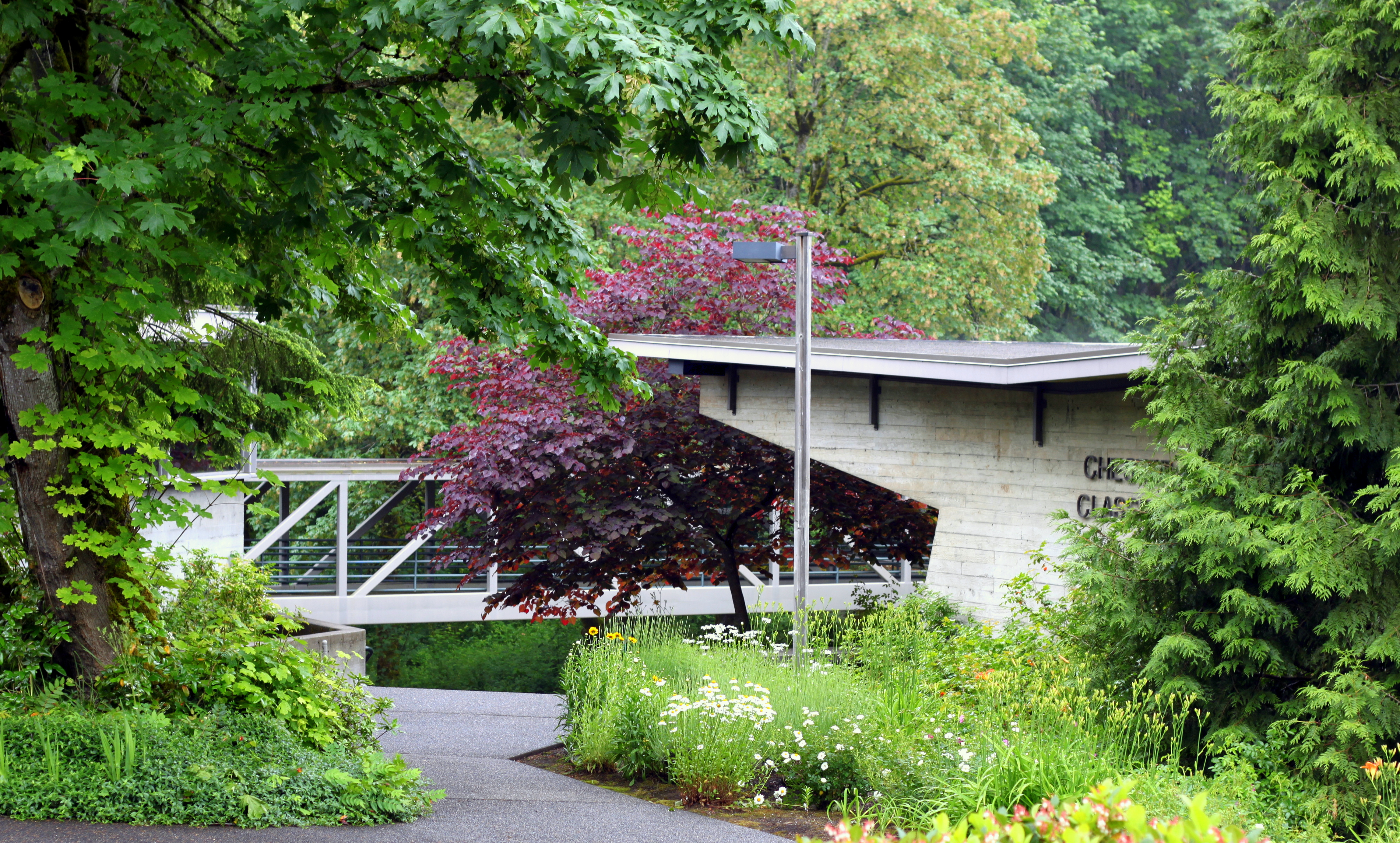 Lewis & Clark Law School in Portland, Oregon.